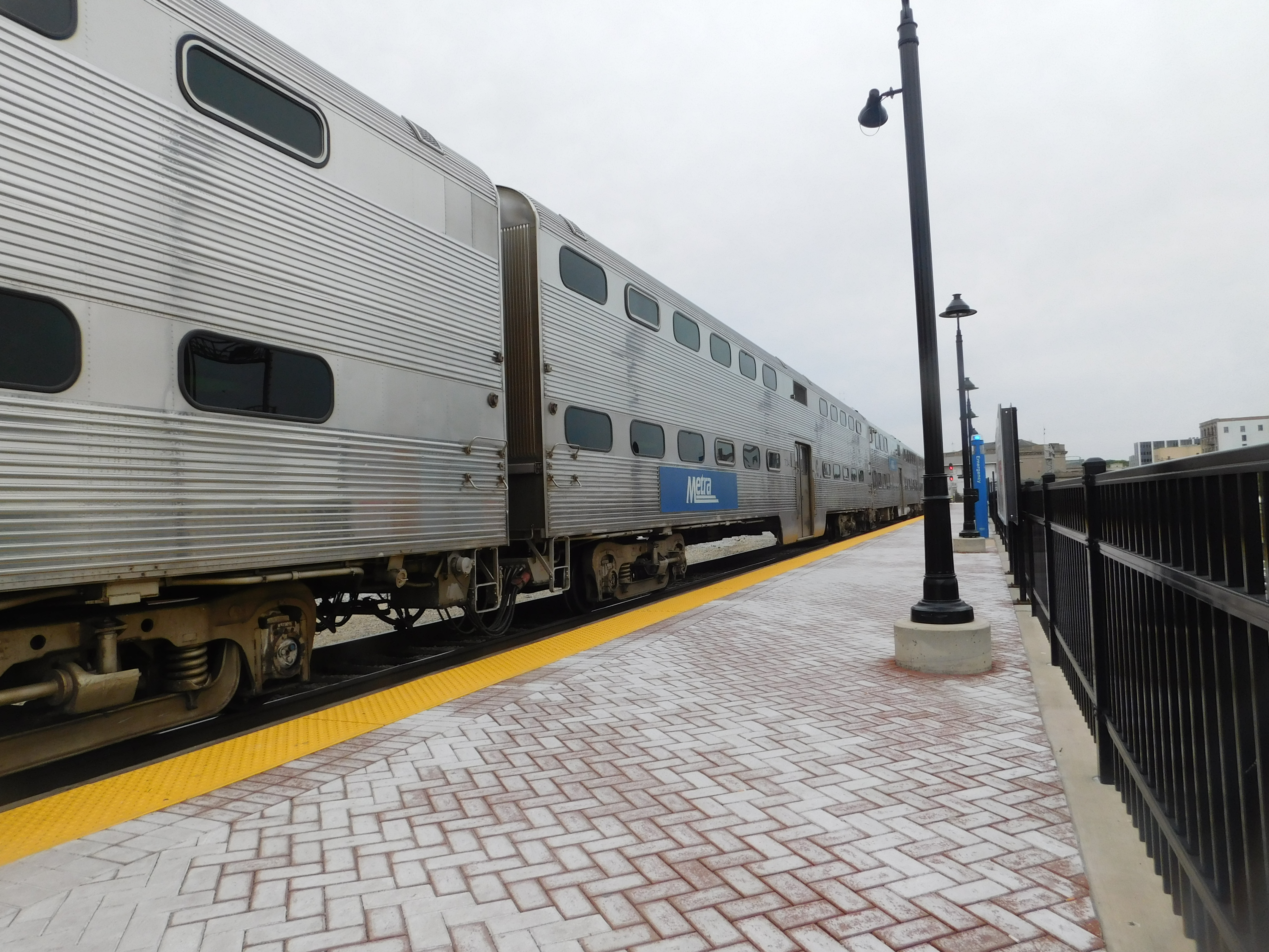 The Rock Island Line platform for the Joliet Transportation Center in Joliet, Illinois.